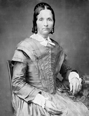 Photograph of Eliza Roxcy Snow Young, the second general president of the Relief of The Church of Jesus Christ of Latter-day Saints (LDS Church). Snow was a wife to Brigham Young, and claimed to be a plural wife of Joseph Smith, Jr.. A renowned poet, Snow chronicled history, celebrated nature and relationships, and expounded scripture and doctrine.